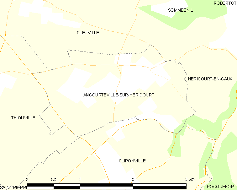 Map of French municipality Ancourteville-sur-Héricourt